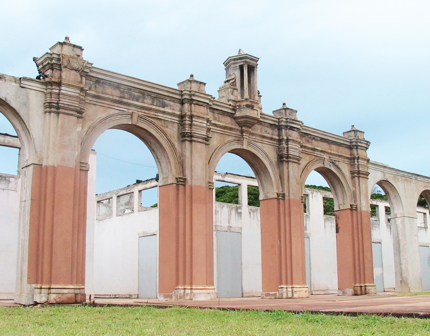 Main entrance façade, ruins of Old Maui High School (1913-1972), designed by Charles William Dickey (1871-1942) and constructed in 1921.